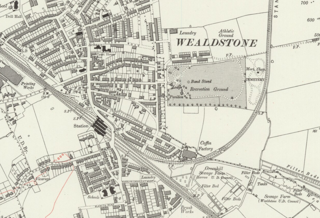 Harrow & Wealdstone station in north London on a 1916 Ordnance Survey map.